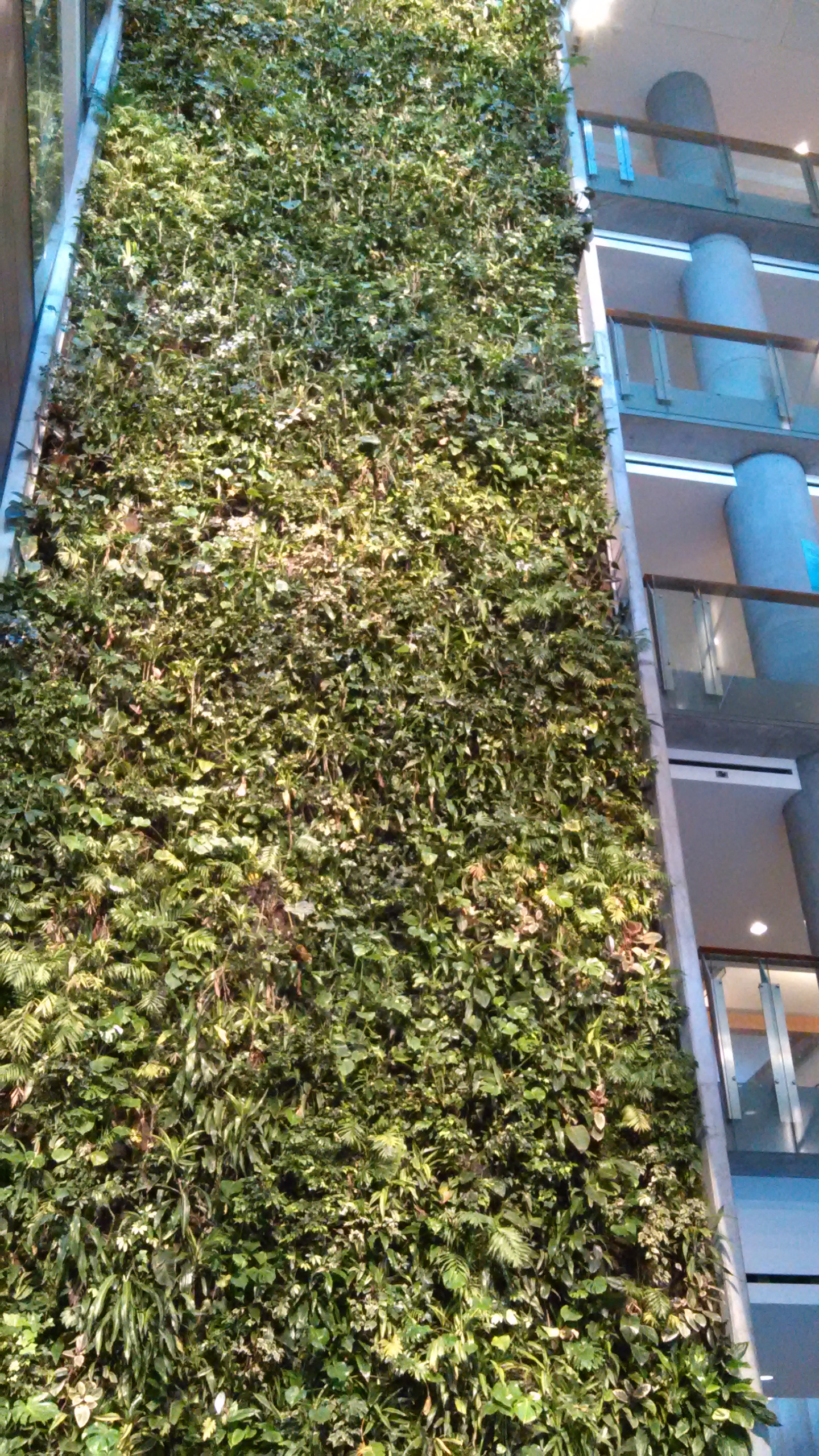 tropical plant wall